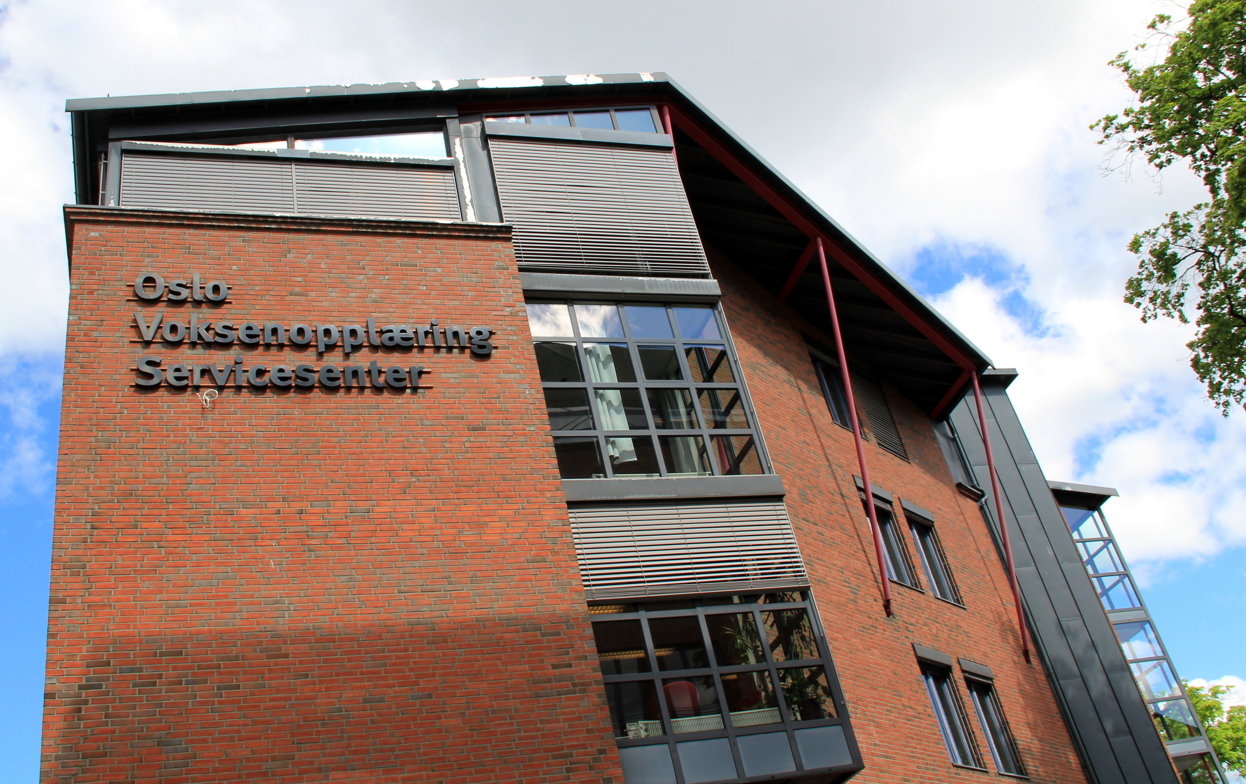 Oslo VO Helsfyr, Oslo adult education service centre